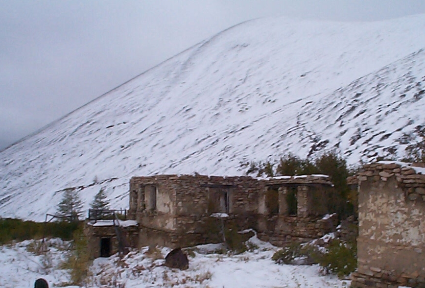 Ruins of the Camp Commandant’s office and guard house at Butugycheg tin mine – a gulag prison camp until 1955 which finally closed in 1958.